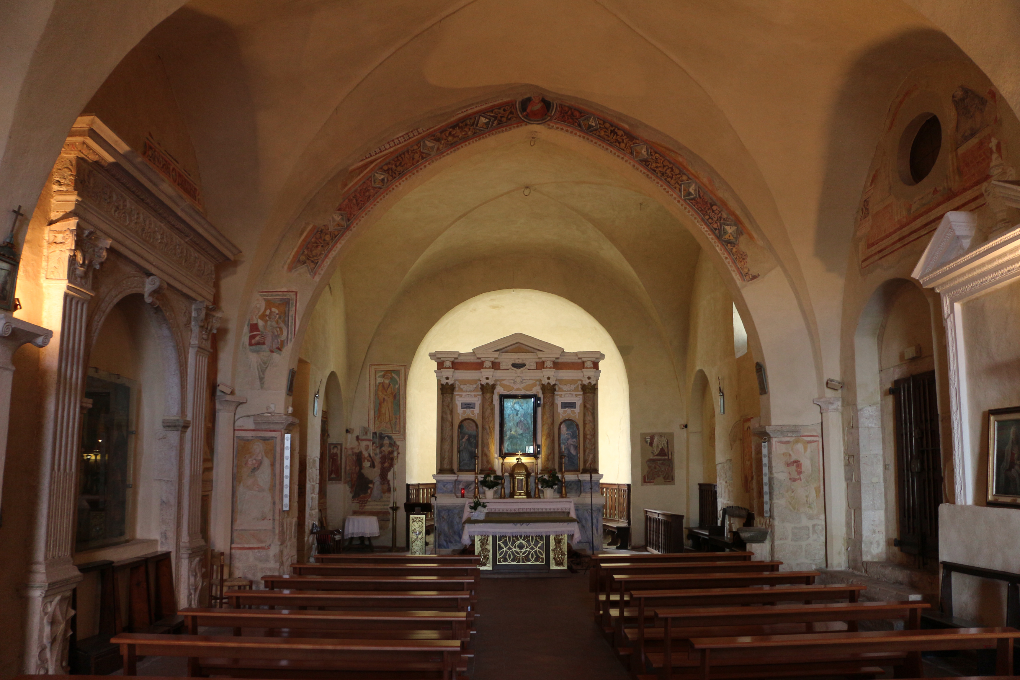 Santissima Annunziata (Magliano in Toscana)